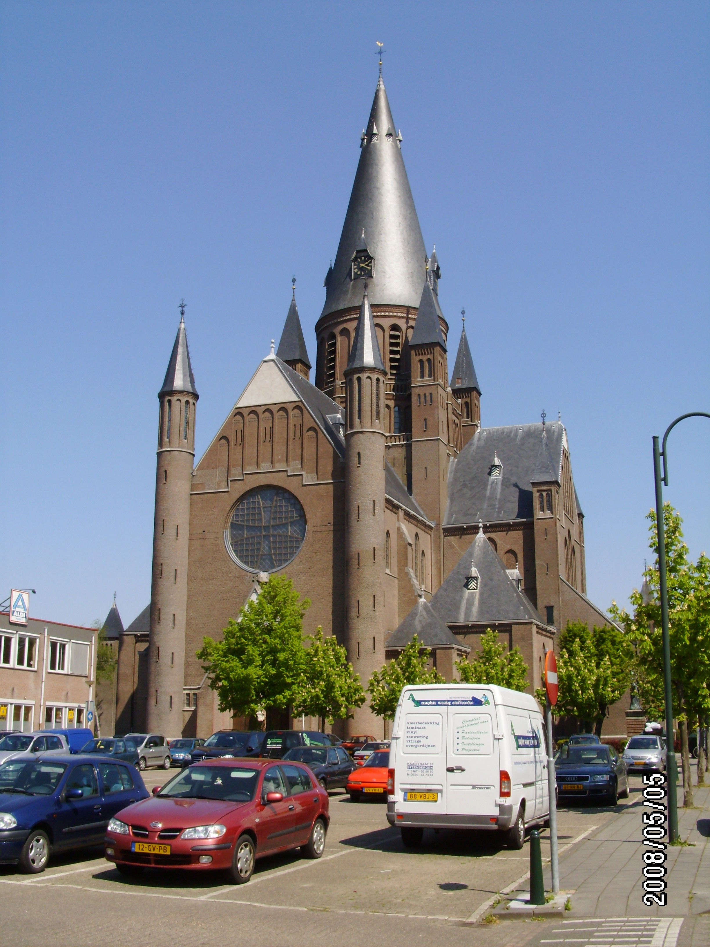 Largest Catholic Church of the Dutch city of Steenbergen